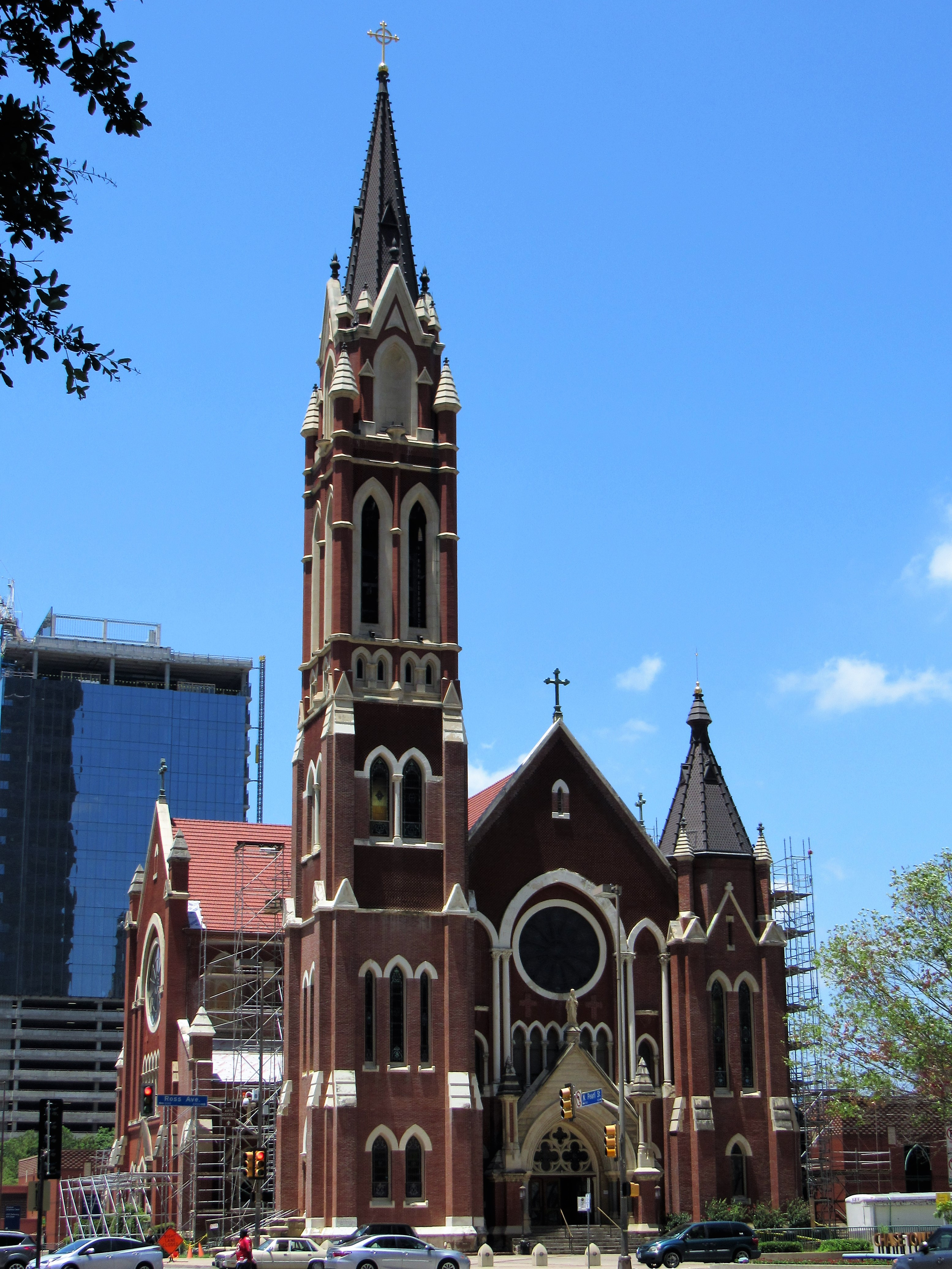 The Cathedral Shrine of the Virgin of Guadalupe in Dallas, Texas.